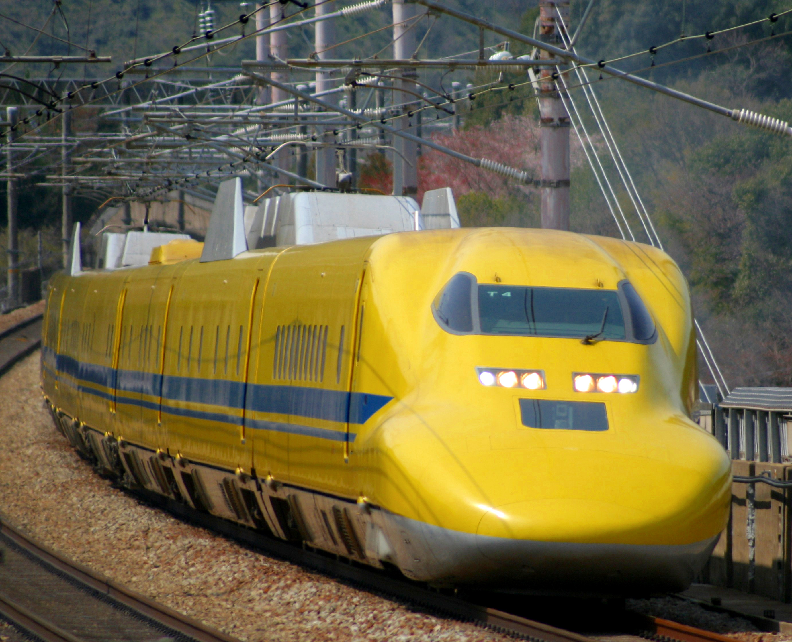 JR Central Class 923 "Doctor Yellow" Shinkansen inspection trainset T4 on the Sanyo Shinkansen between Okayama and Aioi